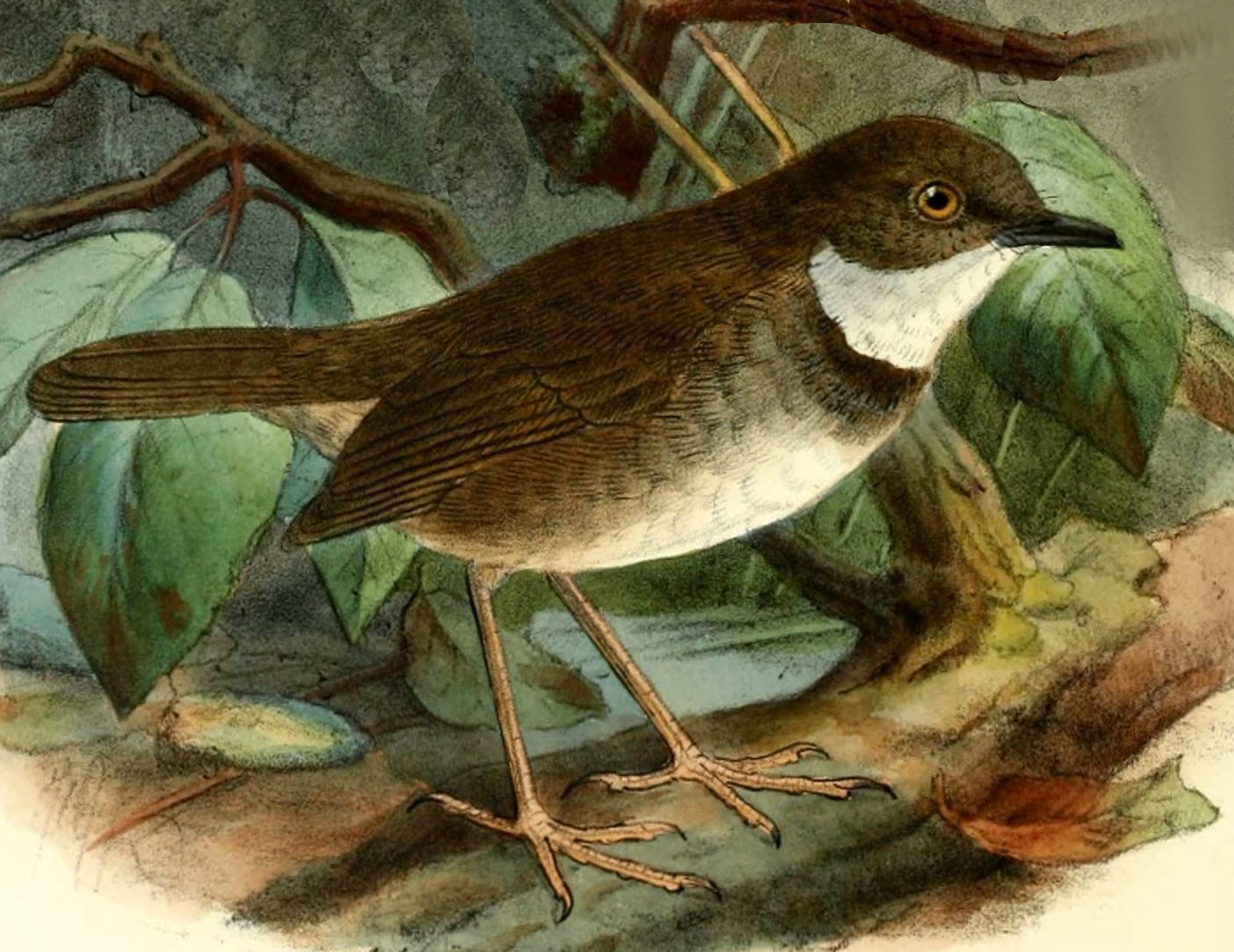 Cratroscelis pectoralis Rothsch. & Hart. = Crateroscelis robusta robusta (De Vis, 1898) (Subspecies of Mountain Mouse-warbler)